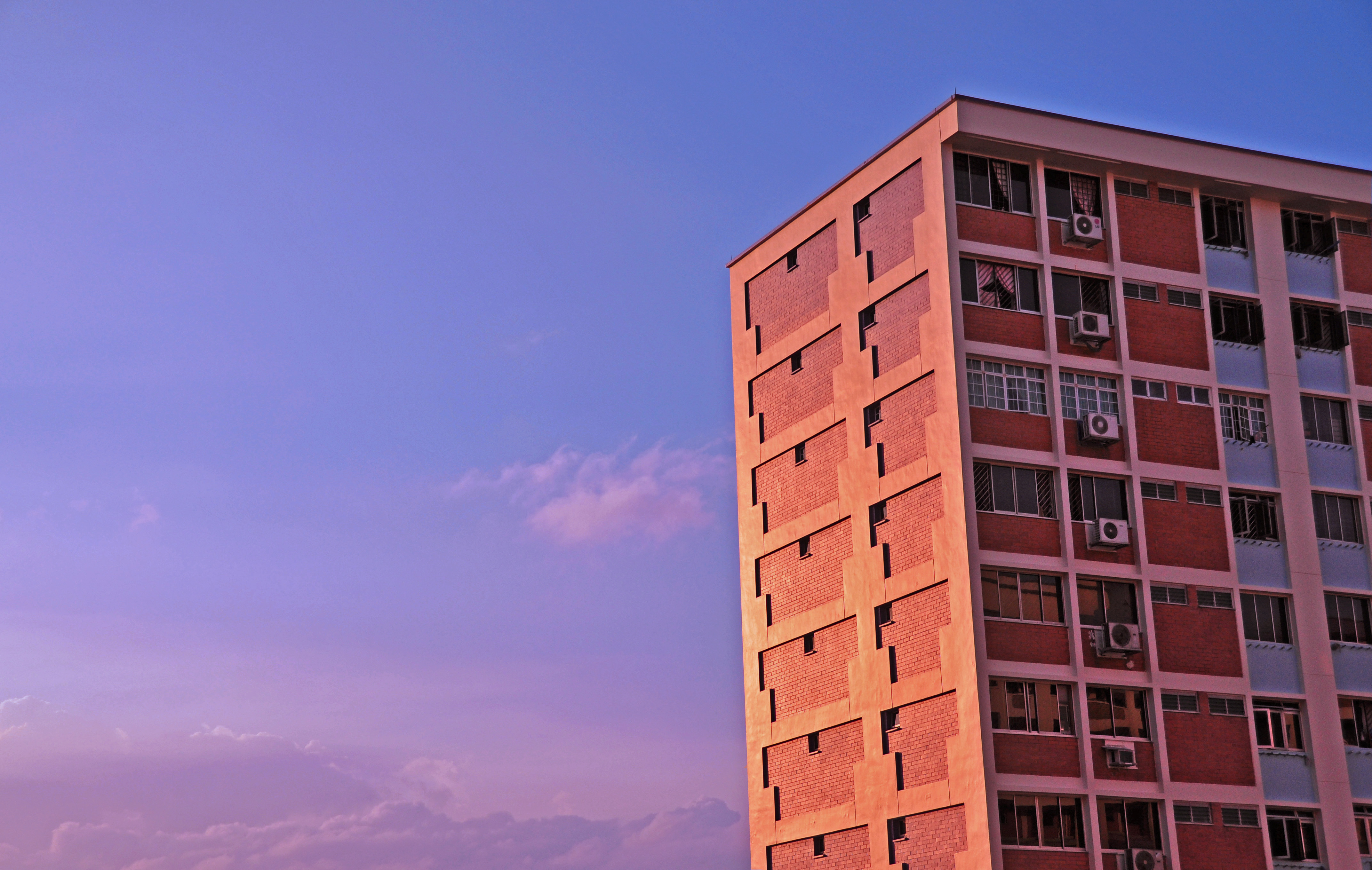 A block of Housing and Development Board (HDB) flats in Singapore.